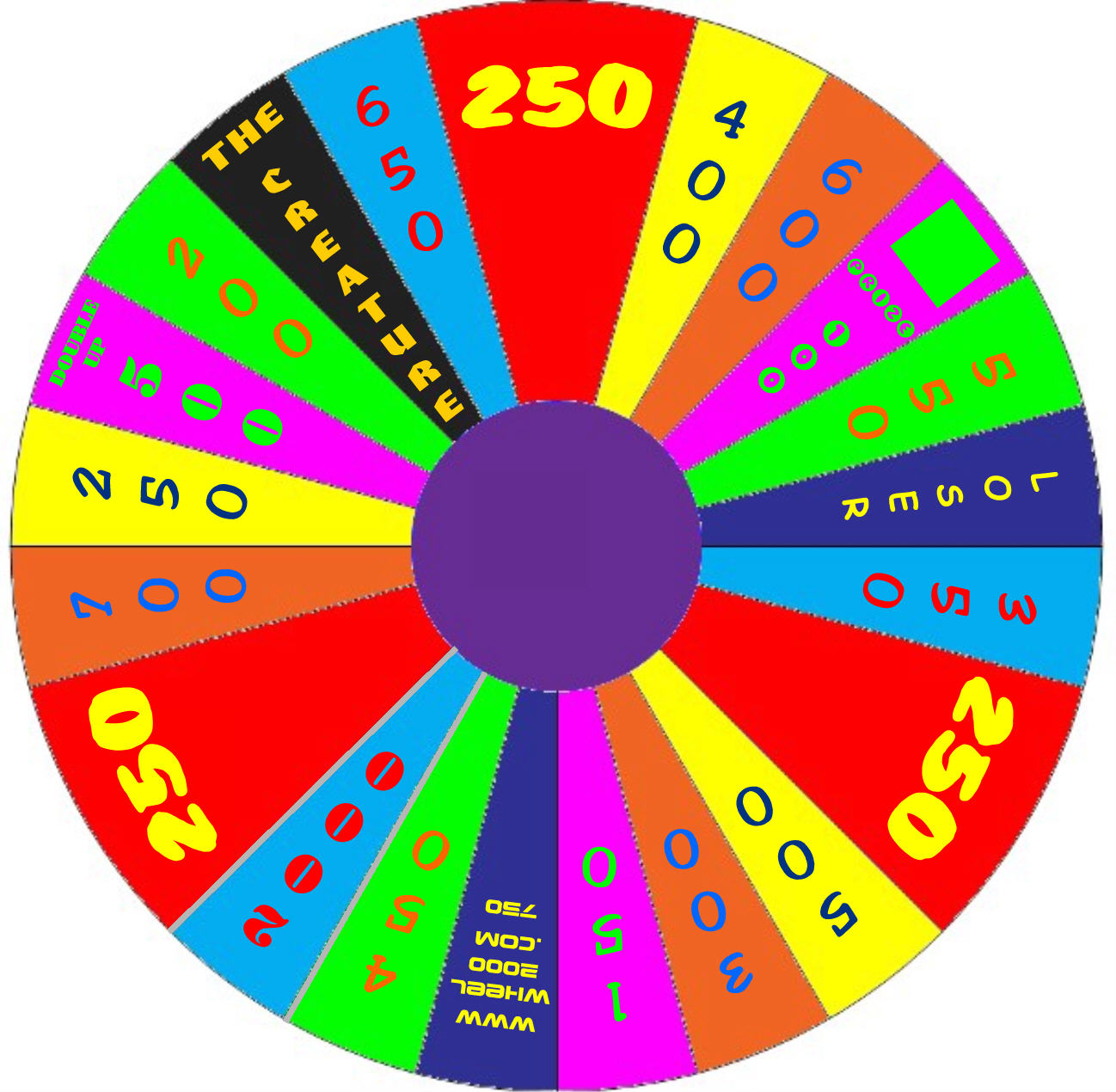 The round 2 wheel from Wheel of Fortune 2000, with the namewise 2000 as top point value.